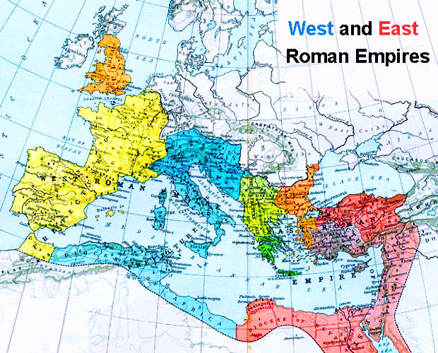 modified by User:Maris stella/ original Image:Roman empire 395.jpg